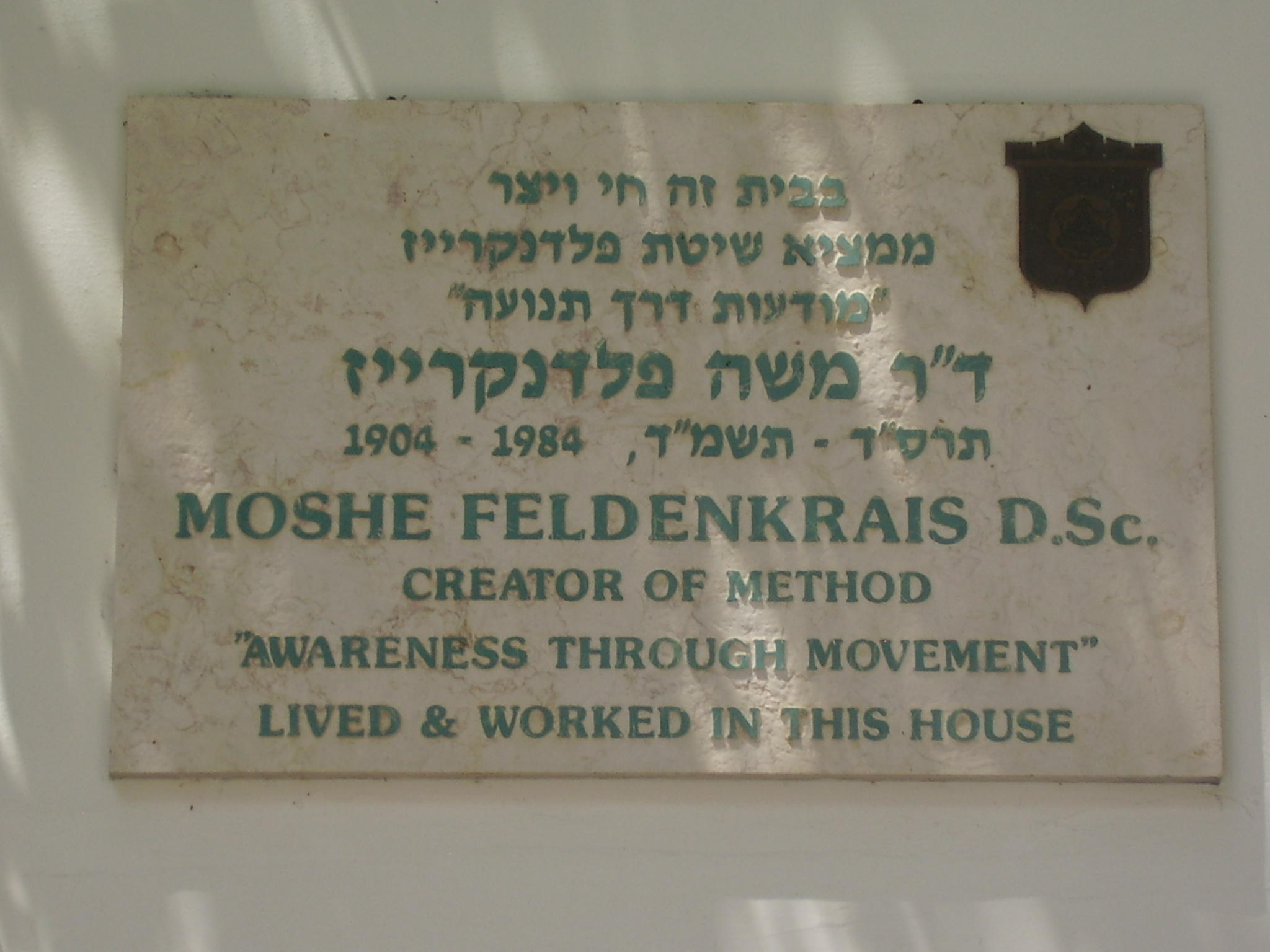 memorial plaque on dr. moshe feldenkras house in tel aviv לוחית זיכרון על ביתו של ד"ר משה פלדנקרייז ברח' פרוג 27 בתל אביב